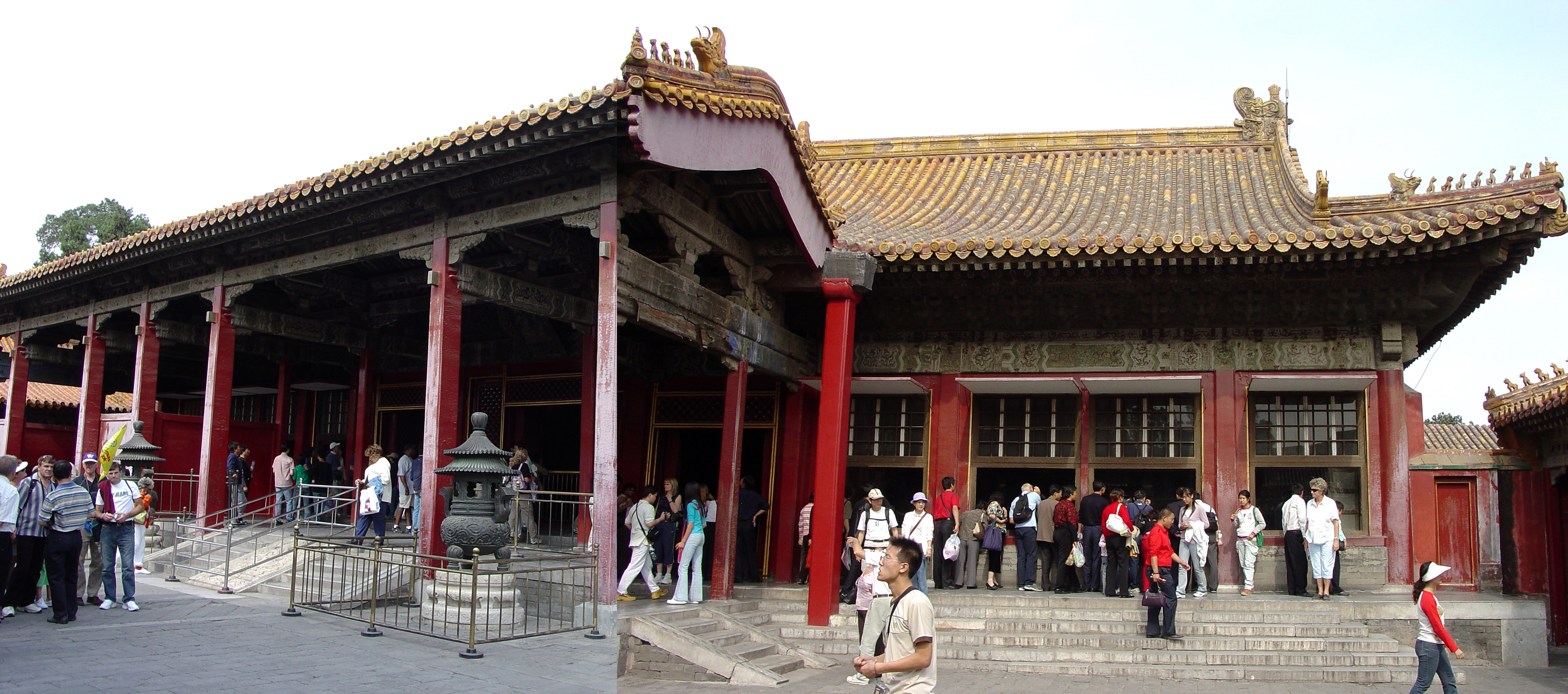 Hall of Mental Cultivation. Forbidden City, Beijing In this building, located just west of the inner court, the Qing emperors would receive their ministers and conduct affairs of state. Later in the dynasty, empress dowager Ci Xi ruled here while concealed behind a curtain. The photograph, seen here, is stitched together from two separate images.